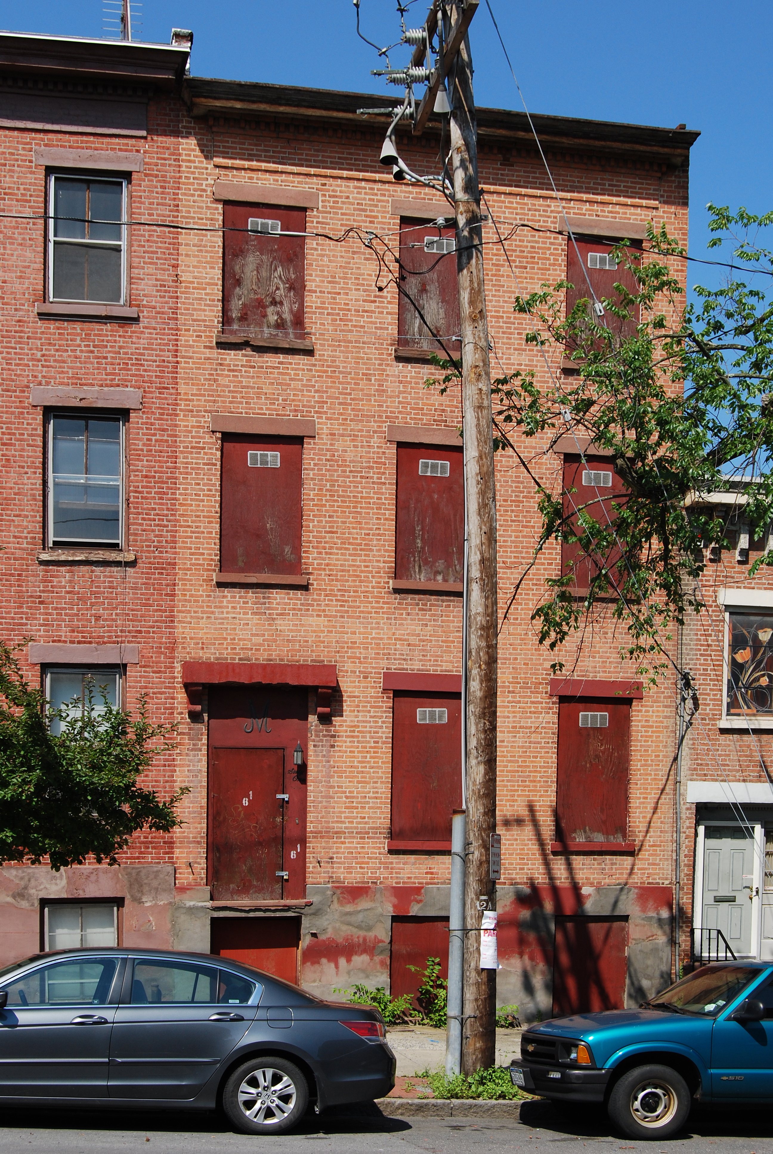 Urban blight (rowhouse with boarded windows and no stoop) at 65 Clinton Avenue in Albany, New York, United States, part of the Clinton Avenue Historic District